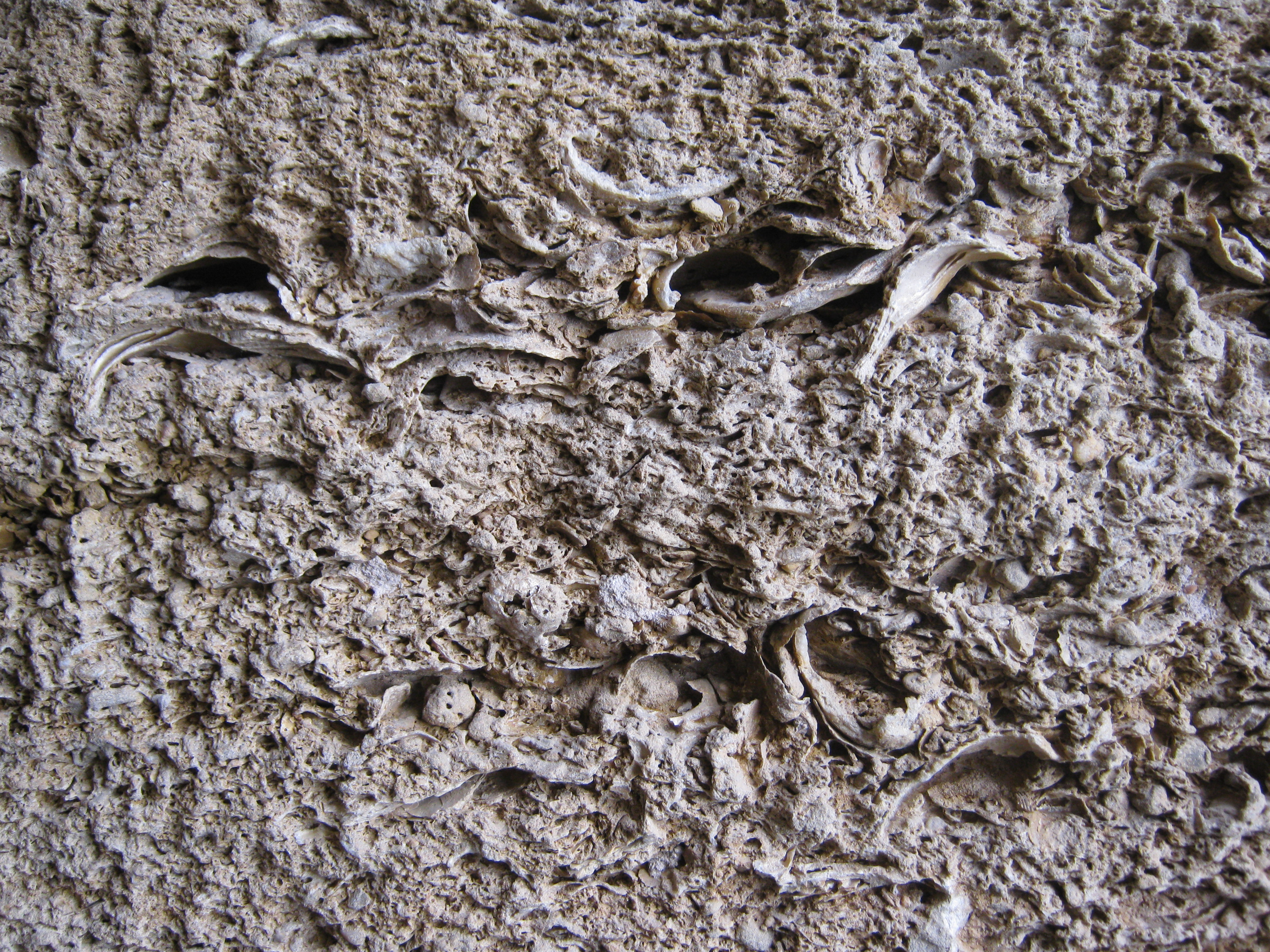 Showing a specimen of the 'oysterstone' which is the predominant stone in the construction of the lighthouse. The mollusc shells are clearly visible.